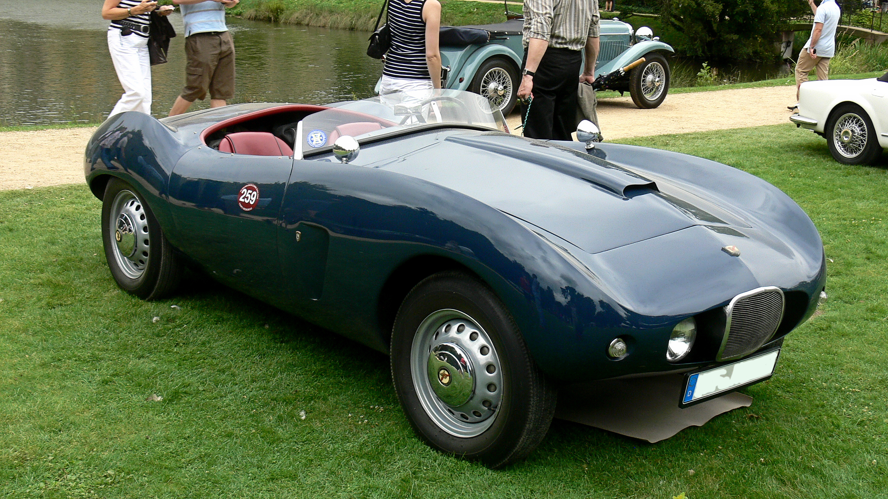 Arnolt-Bristol Bolide (1954) at Dyck Castle, Germany